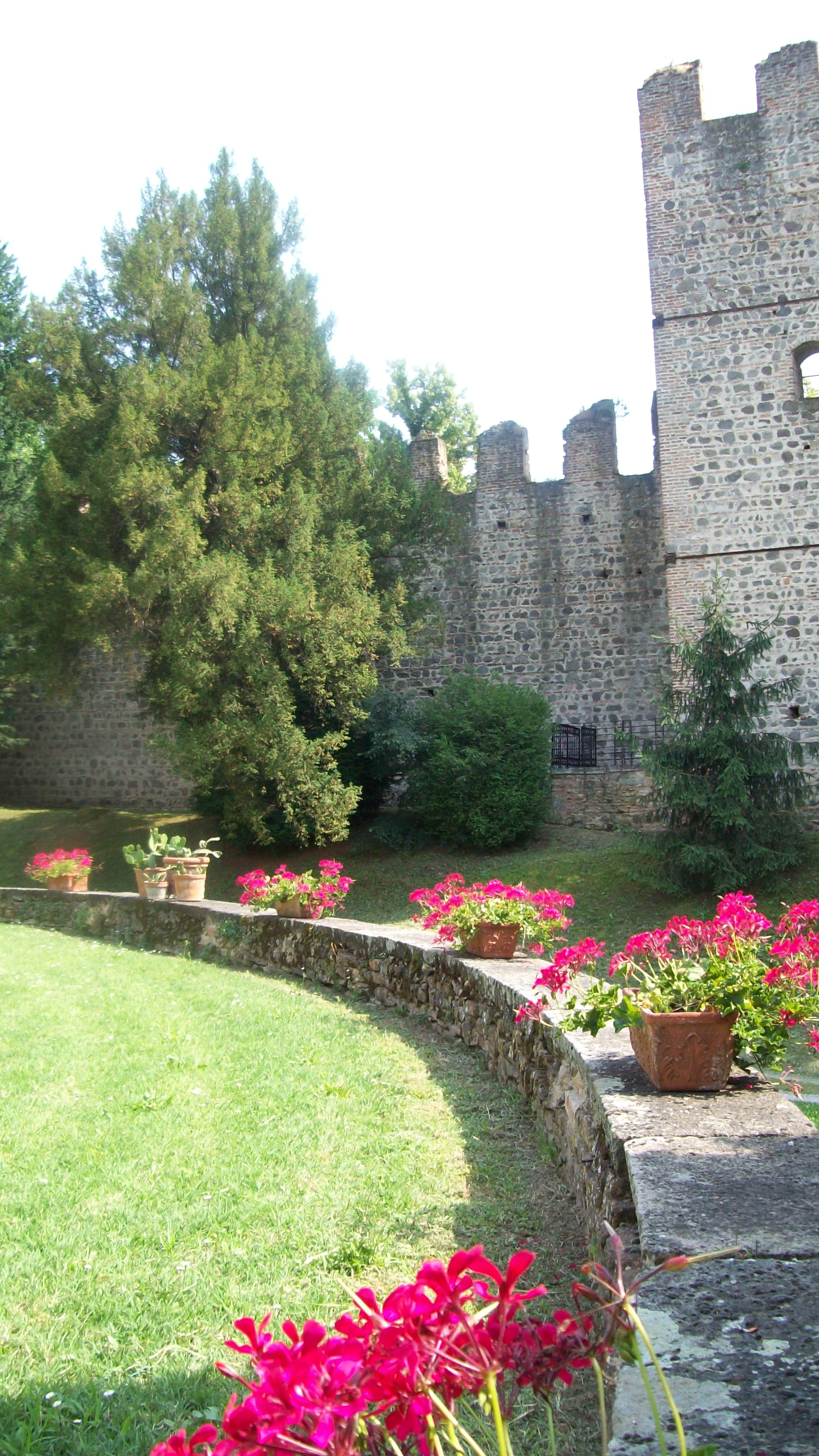 The patio